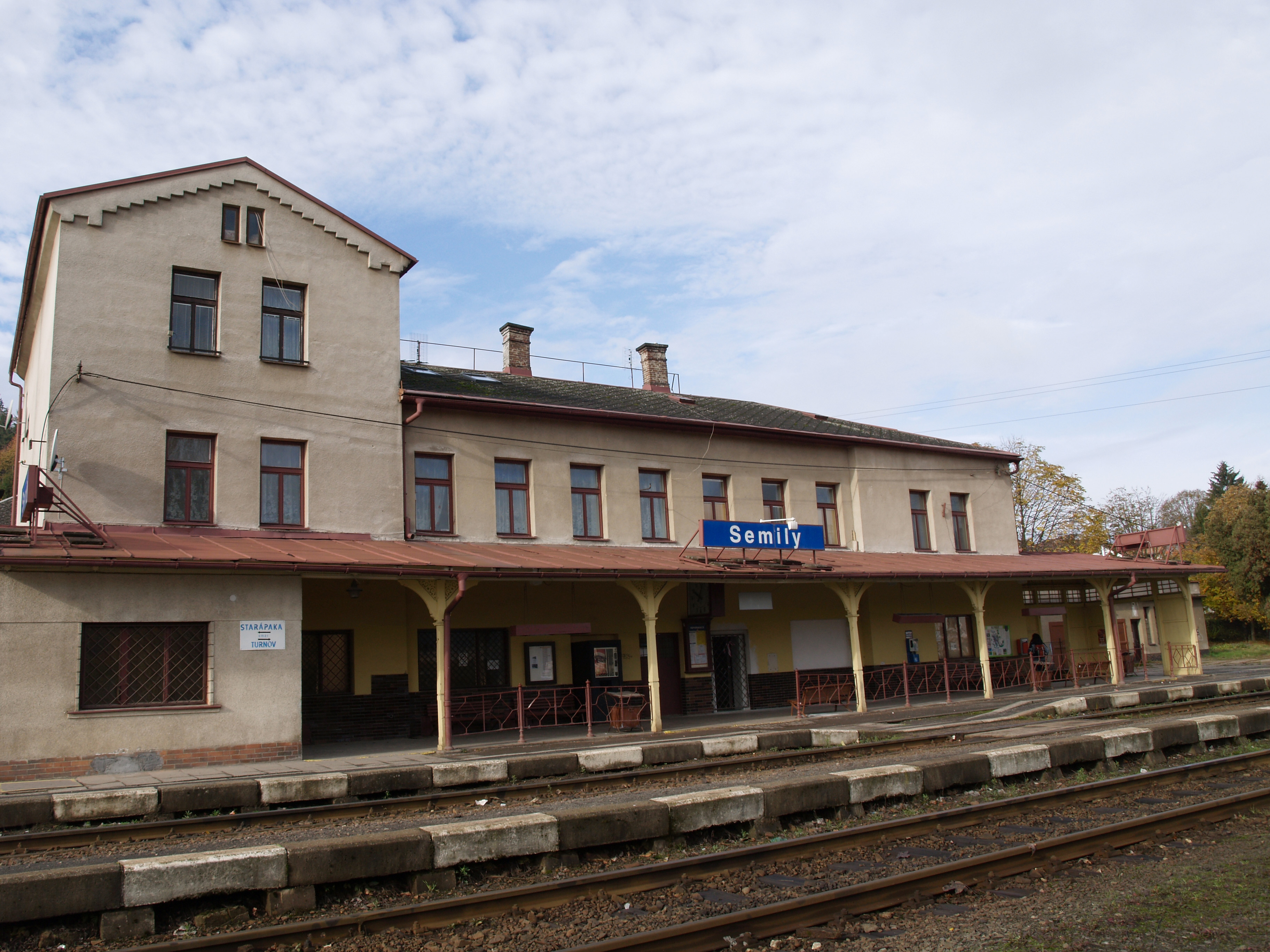 Train station in Czech town Semily